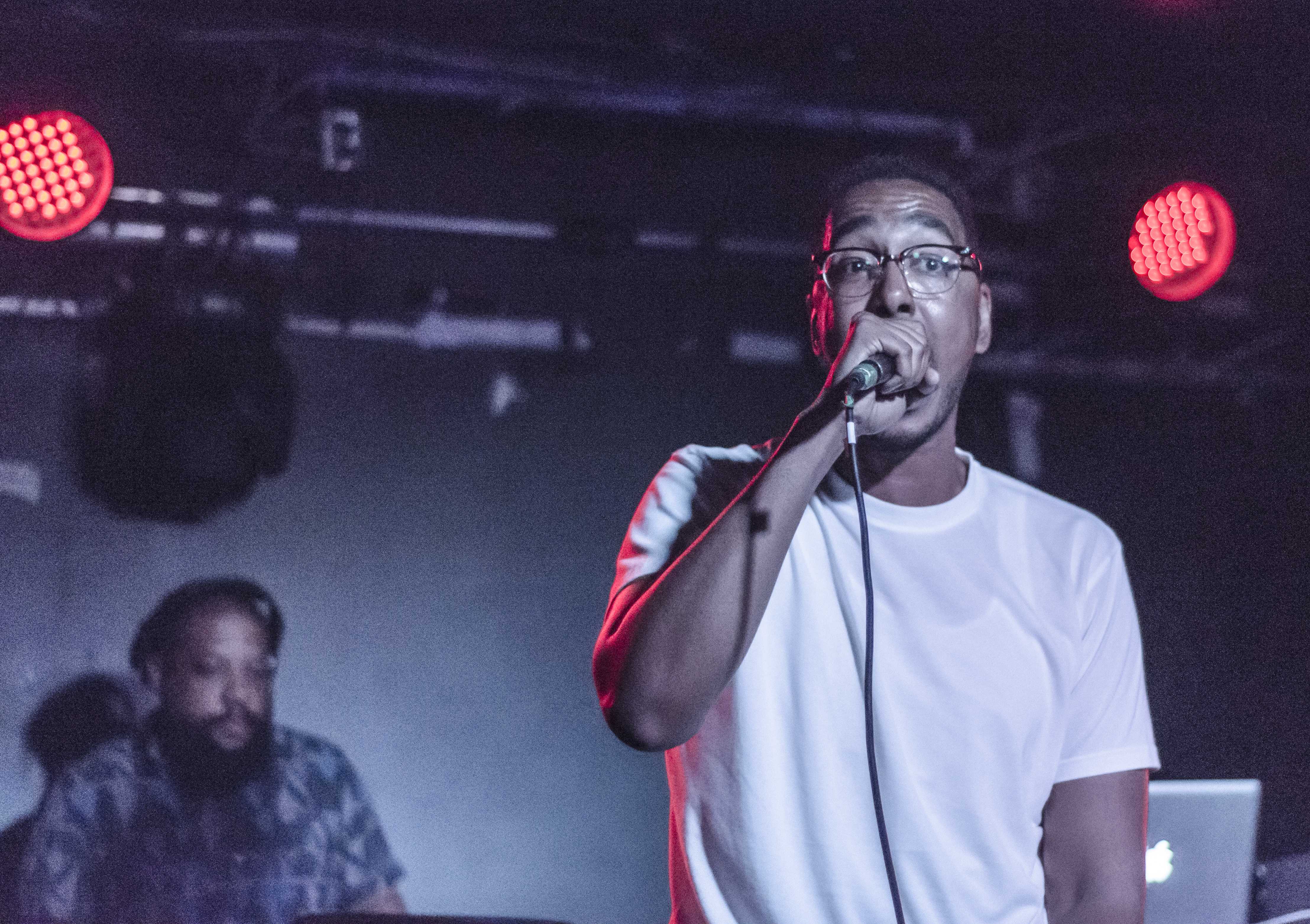 Oddisee at Ritual Nightclub feat. Knoncents, DopeKiid, Erich Mrak, Poetic Elements, Kool Krys and Toine